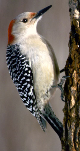 Red-bellied Woodpecker, Melanerpes carolinus, female. Location: Durham, North Carolina, United States.